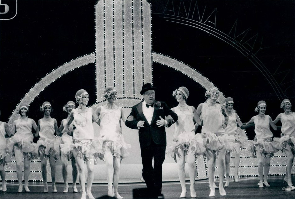 Promotional photo of Jackie Gleason and the June Taylor Dancers from a 1975 Jackie Gleason Show special. This photo was produced prior to 1978 and has no copyright markings. After Gleason's regularly scheduled weekly show was cancelled in 1970, he did some specials for CBS-TV. When his contract with them was finished, Gleason signed with ABC-TV in January 1975. A-a-away he goes to ABC 10 January 1975, Ottawa Citizen. It was created for distribution to the media (newspapers and magazines). The image was meant to attract attention and publicity for the personalities pictured, the show or special and the network it was part of. The aim of this image was exactly the same as the publicity shots/stills done in the film industry. Film production expert Eve Light Honthaner in The Complete Film Production Handbook, (Focal Press, 2001 p. 211.): "Publicity photos (star headshots) have traditionally not been copyrighted. Since they are disseminated to the public, they are generally considered public domain, and therefore clearance by the studio that produced them is not necessary." "There is a vast body of photographs, including but not limited to publicity stills, that have no notice as to who may have created them." (The Professional Photographer's Legal Handbook By Nancy E. Wolff, Allworth Communications, 2007, p. 55.) Creative Clearance-Publicity photos "Publicity Photos (star headshots) older publicity stills have usually not been copyrighted and since they have been disseminated to the public, they are generally considered public domain and therefore there is no necessity to clear them with the studio that produced them (if you can even determine who did)."